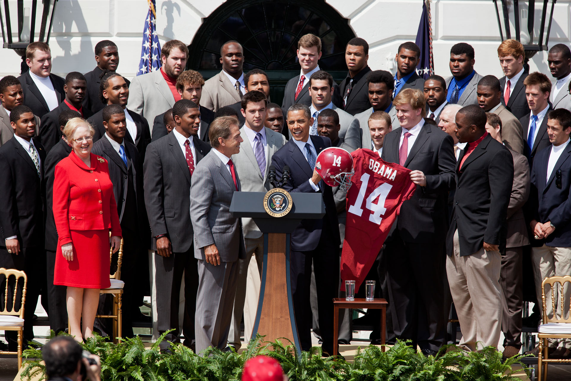 President Obama receives a jersey from Barret Jones to commemorate the 2011 National Championship of the Alabama Crimson Tide football team. Nick Saban is to the left of the President with other members of the 2011 squad at rear.